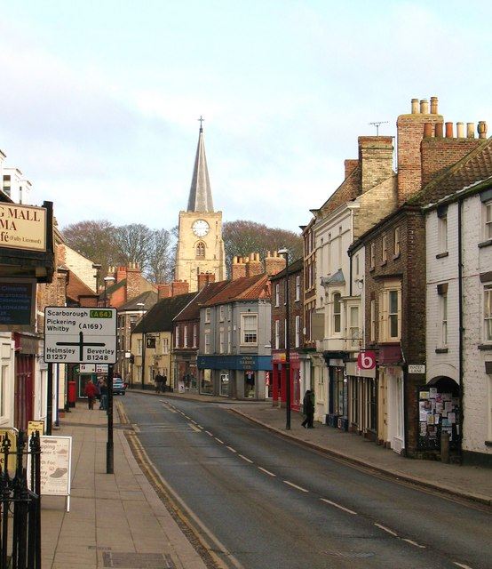 Yorkersgate, Malton One of the main streets in the town centre, and once the route of the main A64 York to Scarborough road. Looking east towards the spire of St Leonard's Church.